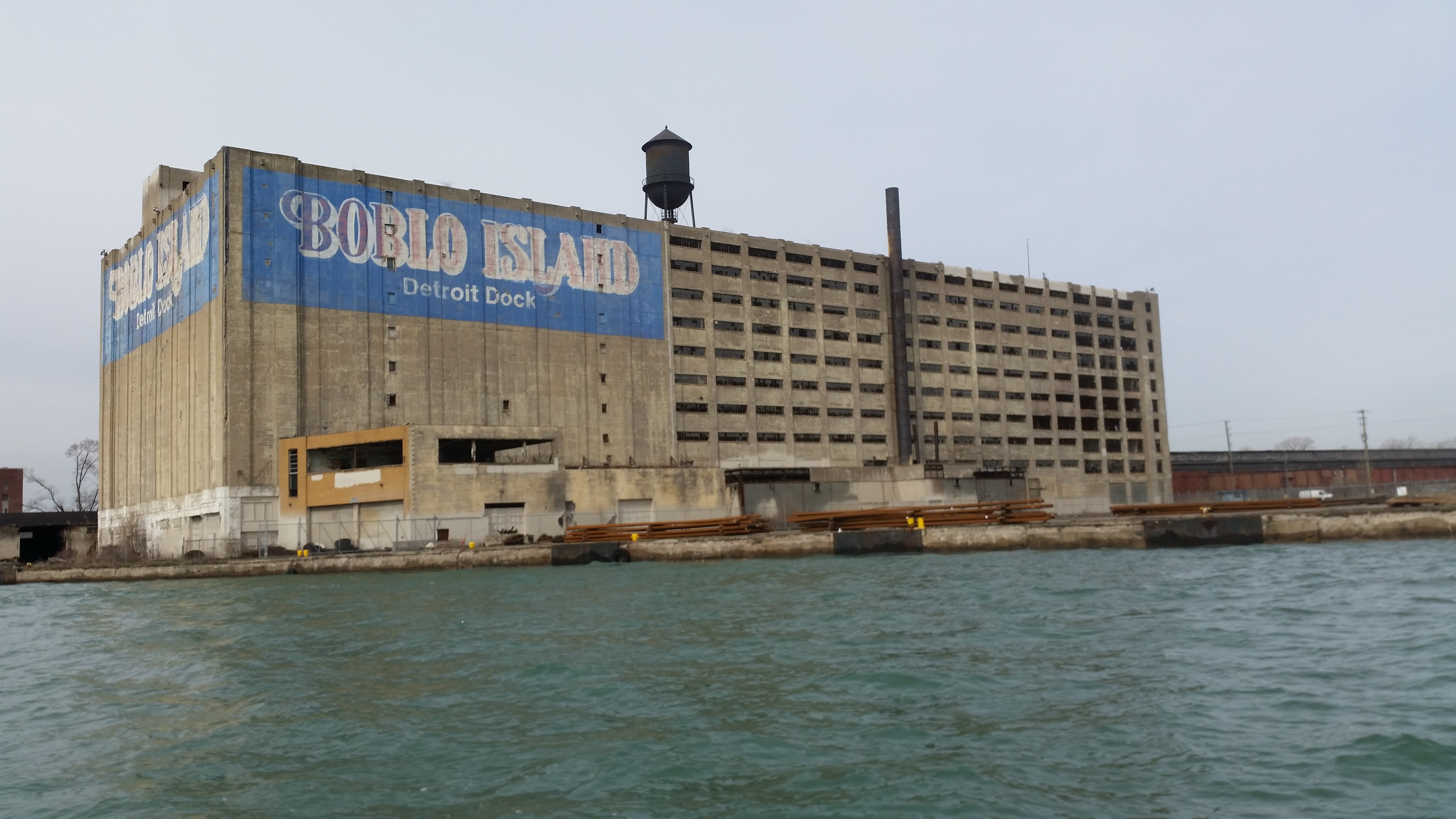 Depicted place: Detroit Harbor Terminals / Boblo Island Detroit Dock Building